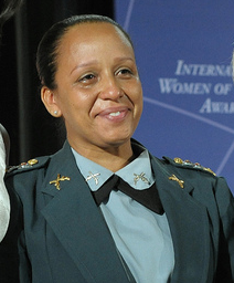 Pricilla de Oliveira Azevedo cropped from pic with Michelle Obama and Hillary Clinton